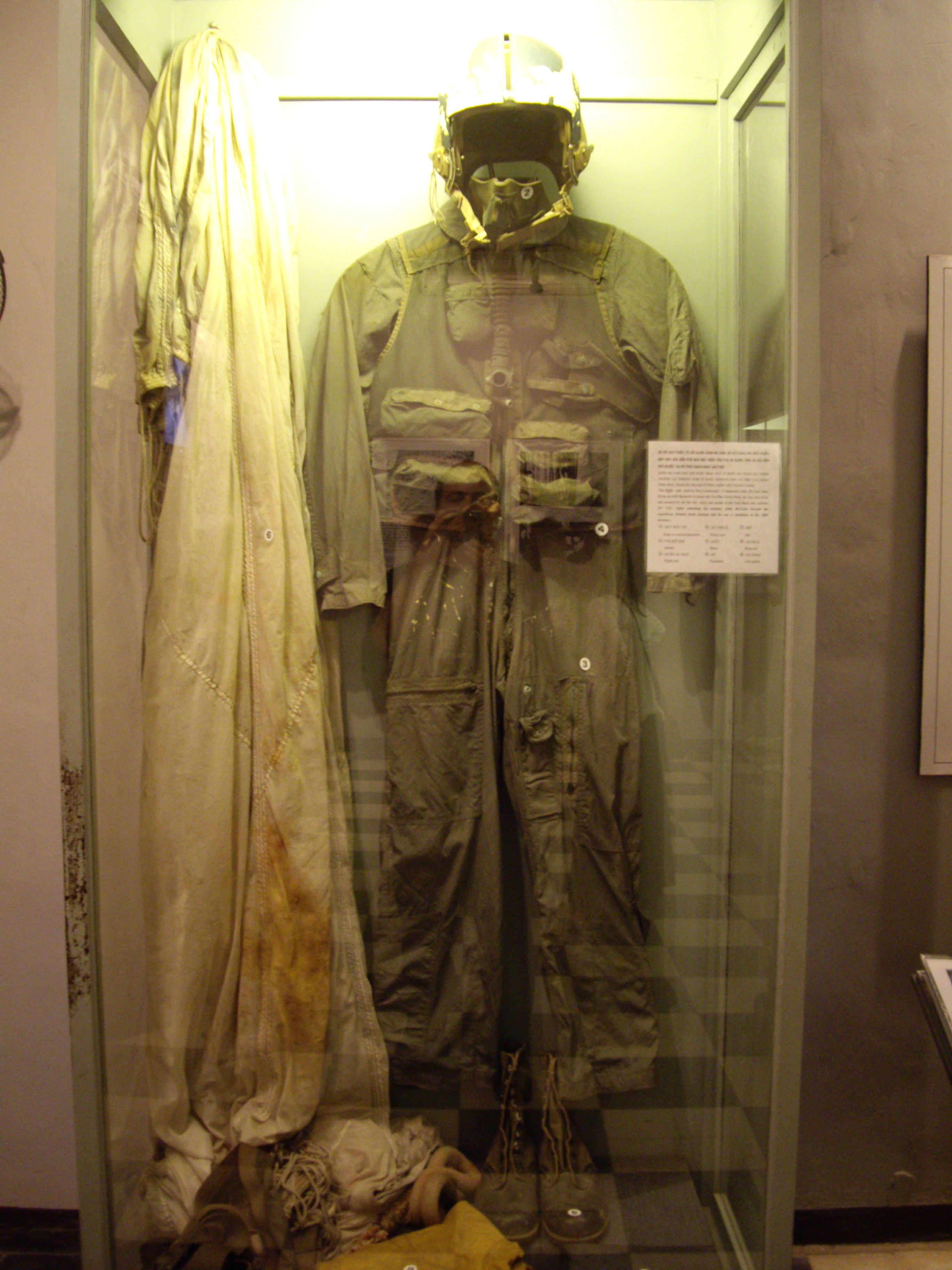 John McCain's flight suit as shown at the Hanoi Hilton, Ho Chi Minh City.